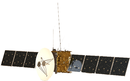 Scheme of ESA's JUICE spacecraft